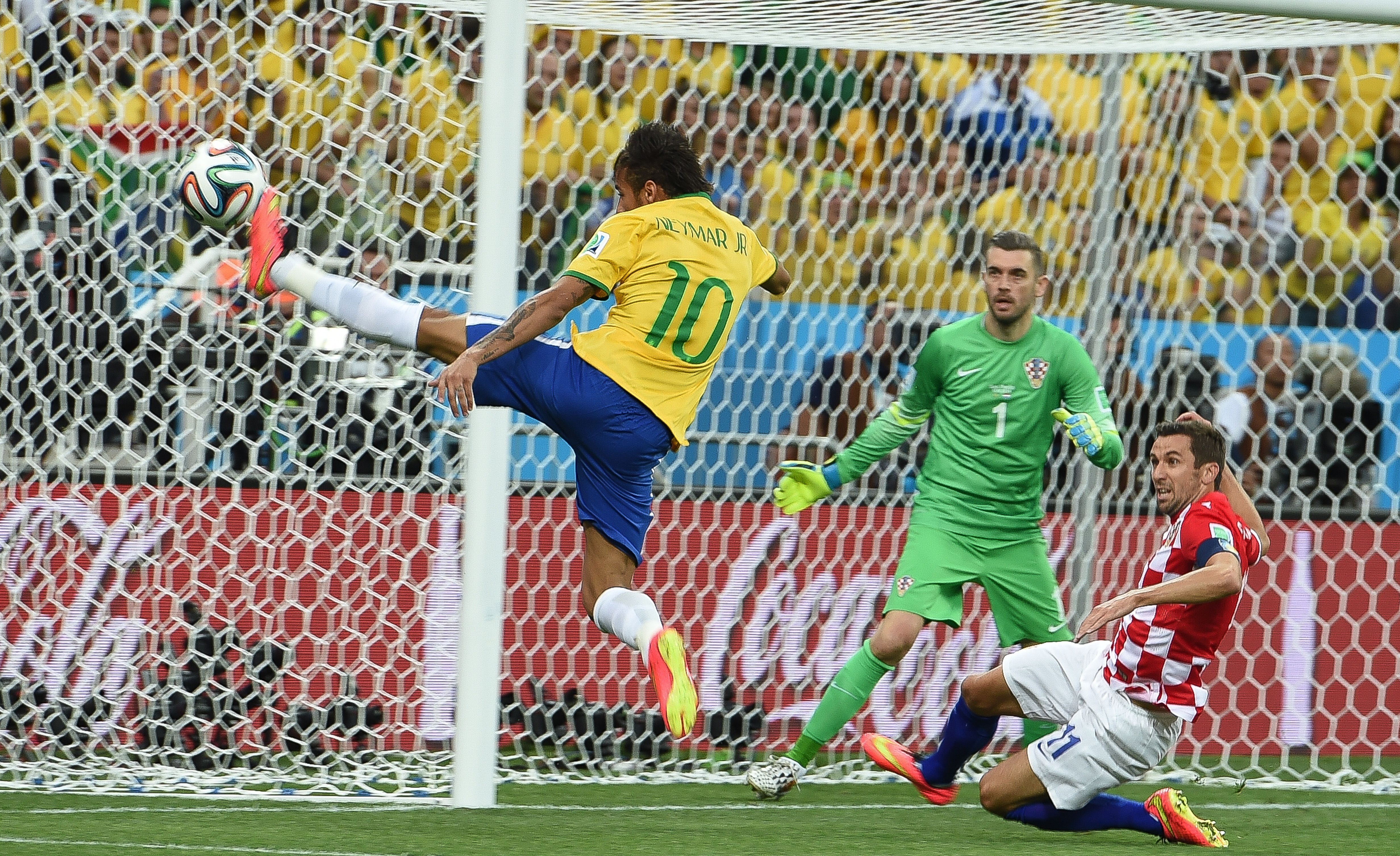 Brazil and Croatia match at the FIFA World Cup 2014-06-12